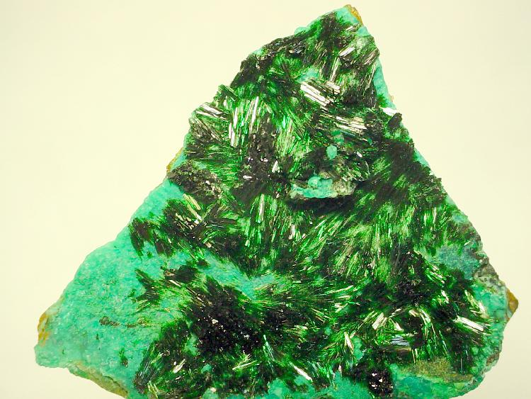 Atacamite, Chrysocolla Locality: La Farola Mine, Cerro Pintado, Las Pintadas district, Tierra Amarilla, Copiapó Province, Atacama Region, Chile (Locality at ) Wet-looking, highly lustrous, deep green crystals of atacamite are basically draping a plate of chrysocolla-covered matrix here. It is so bright and shiny, it looks metallic! This is old material with discrete crystals rather than completely flat aggregates, and is rare today in such quality 4 x 3 x 2 cm